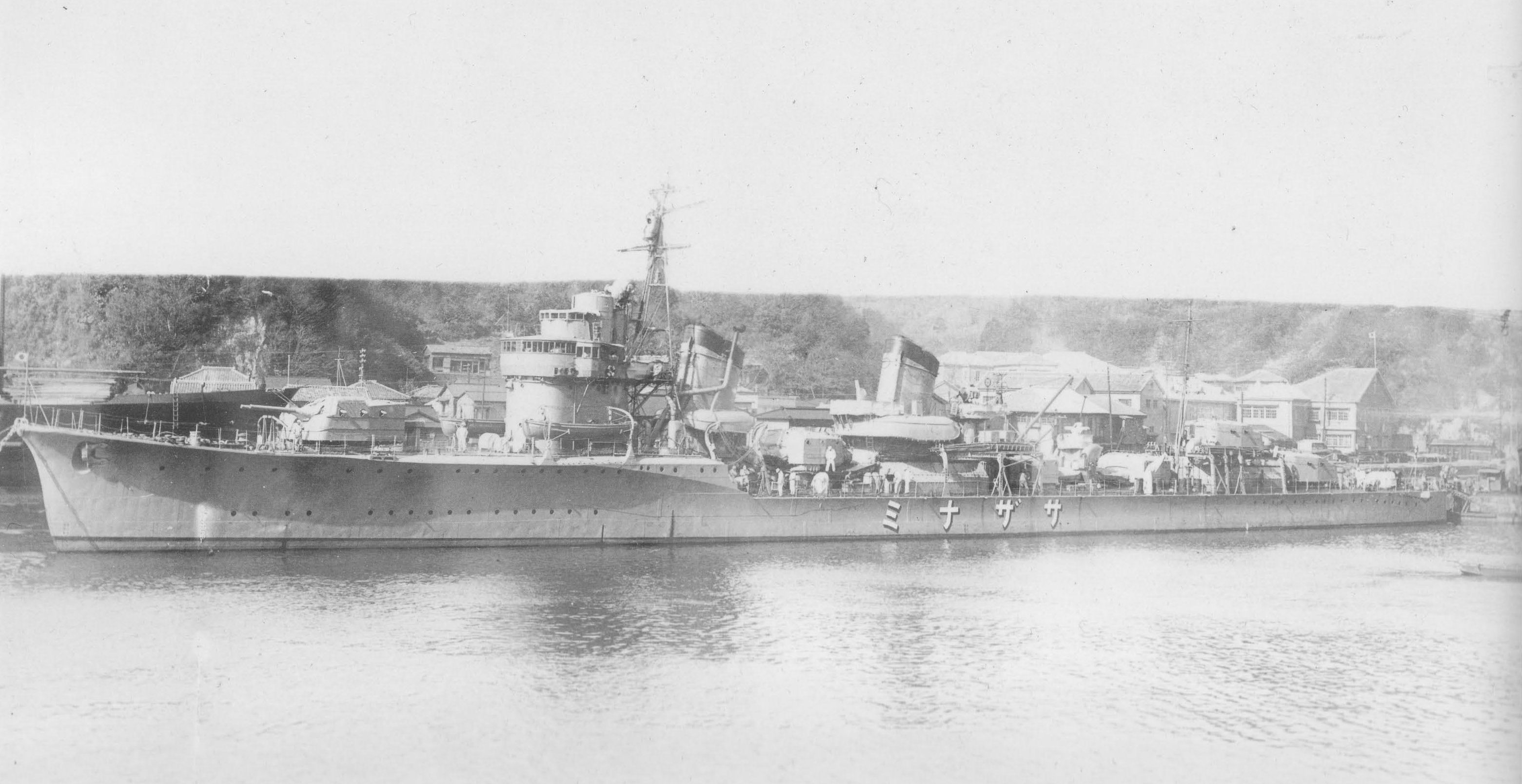 Imperial Japanese Navy destroyer Sazanami, the second Japanese warship to bear that name.